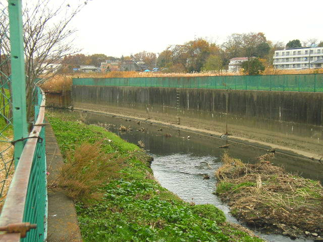 Tōemon River. Kawaguchi, Saitama prefecture, Japan.